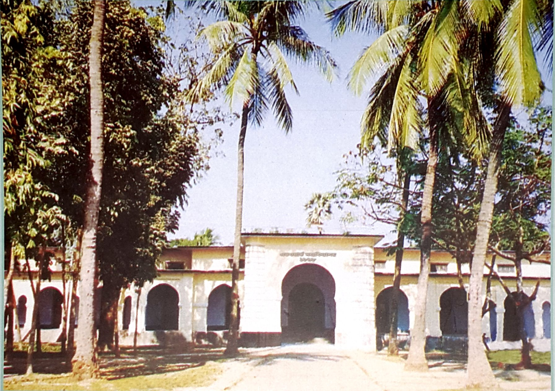 Earlier front side of the college.